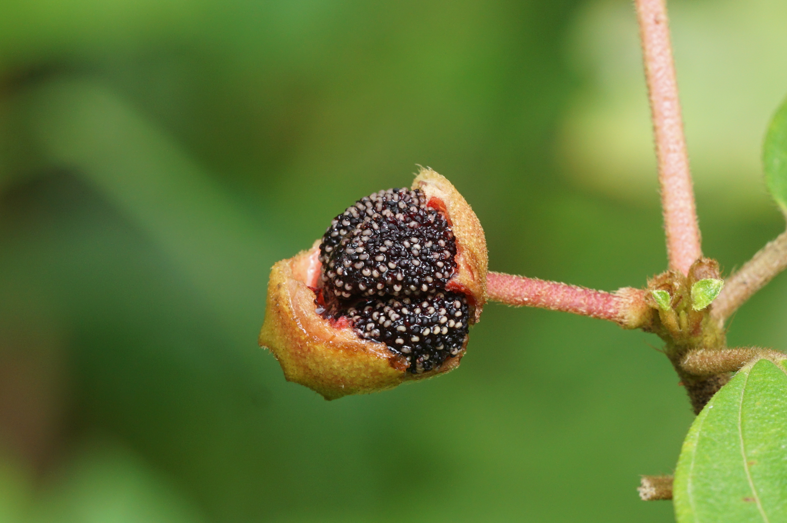 Melastoma malabathricum